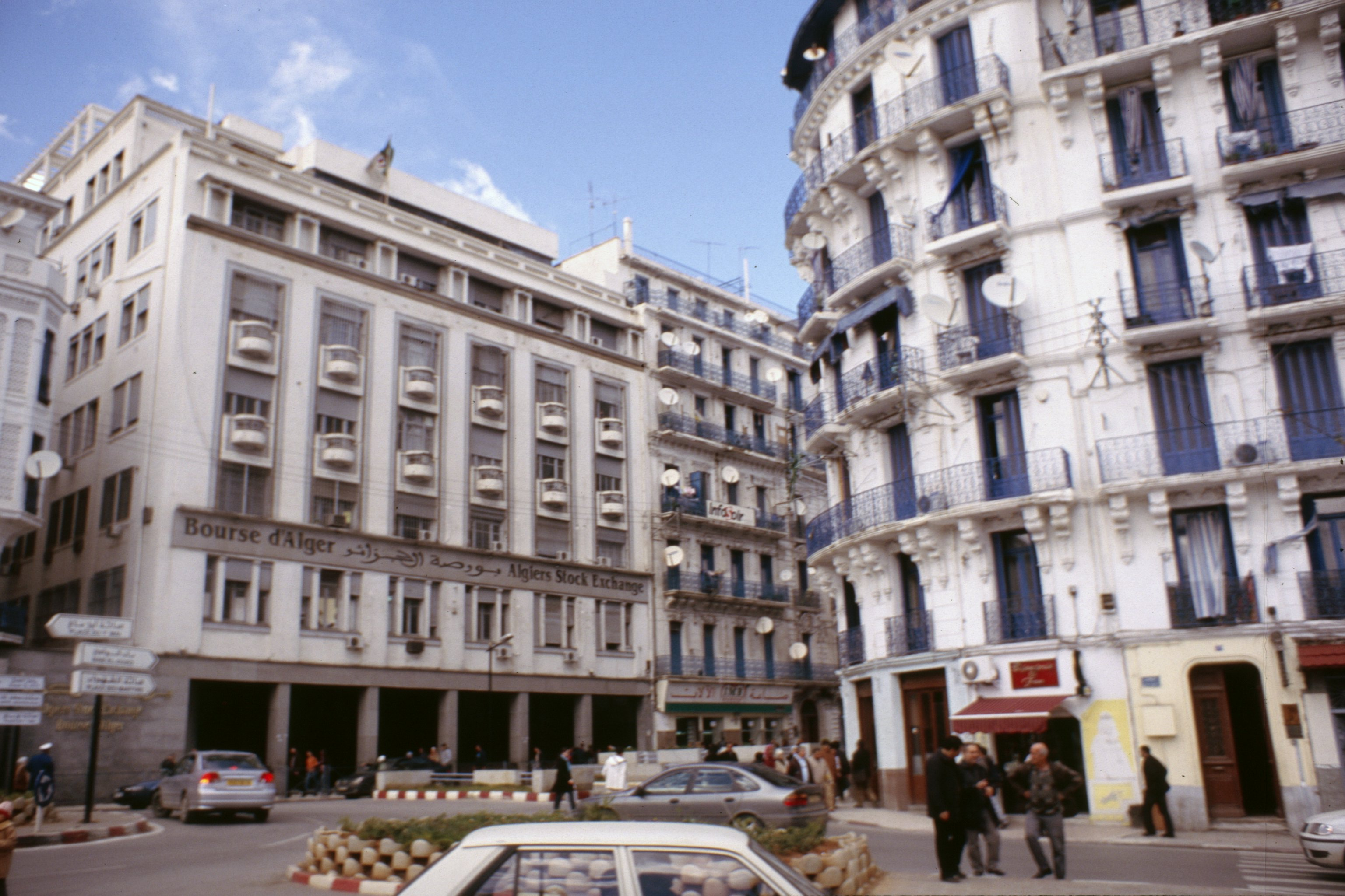 Roundabout in Algiers, Algeria.